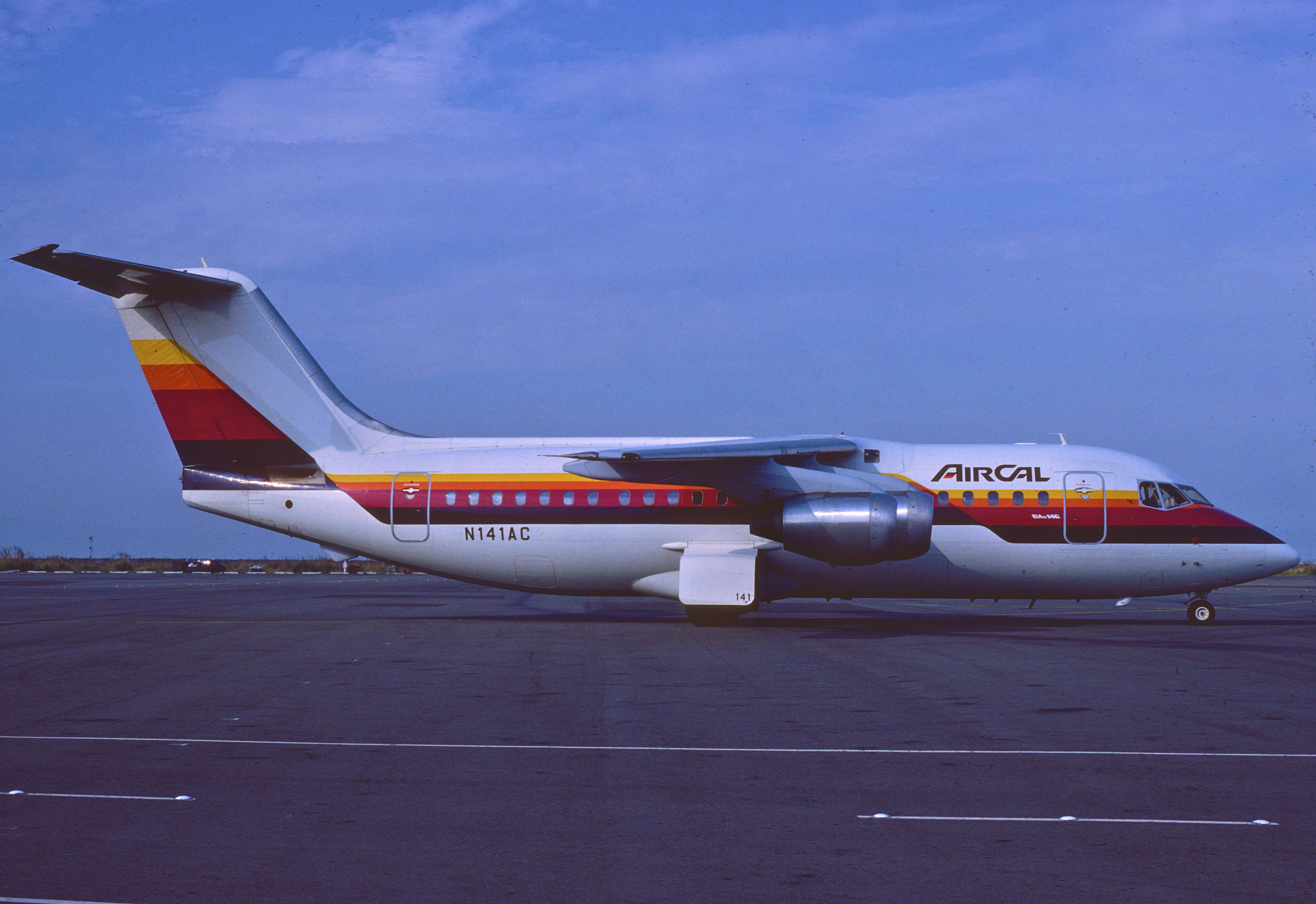 AirCal BAe 146-200; N141AC, May 1987/ CYO